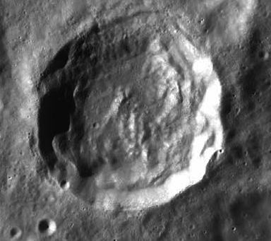 Extract form the LAC-117 chart